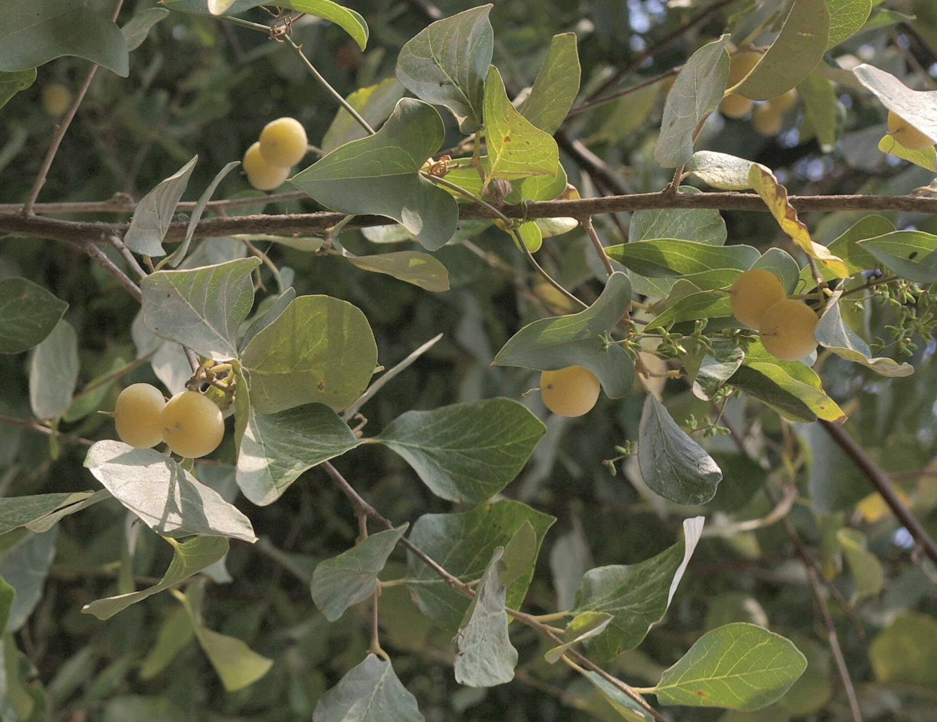 Styrax officinalis at Judea hills